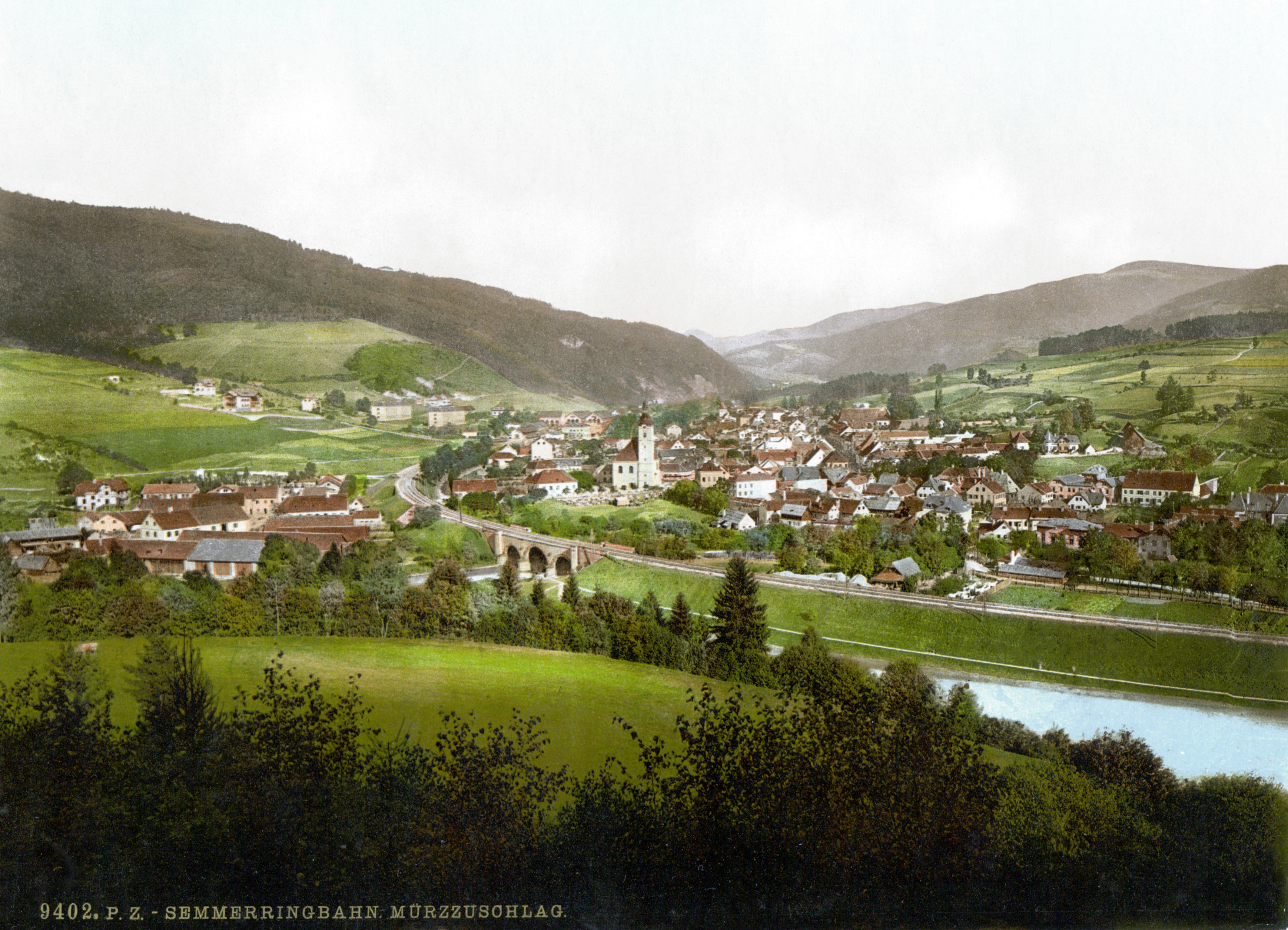 Mürzzuschlag, view from the west, with the Semmering Railway line, Styria, Austro-Hungary, between ca. 1890 and ca. 1900